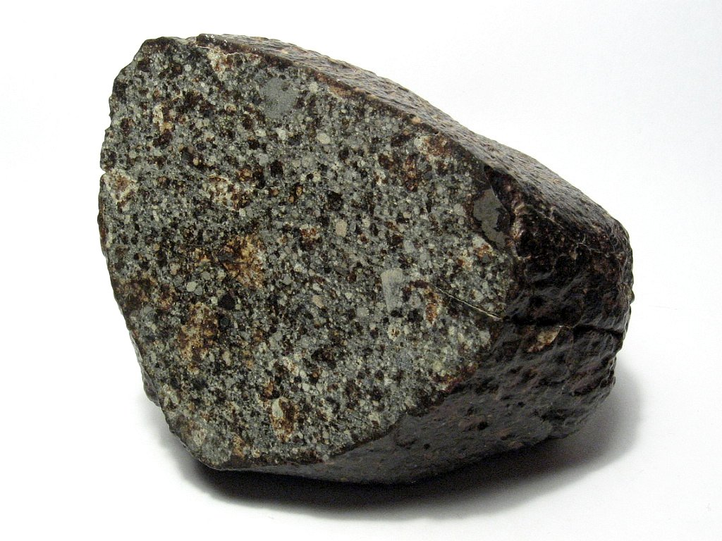 A 700g individual of the NWA 869 meteorite. Chondrules and metal flakes can be seen on the cut and polished face of this specimen. NWA 869 is a ordinary chondrite (L4-6).